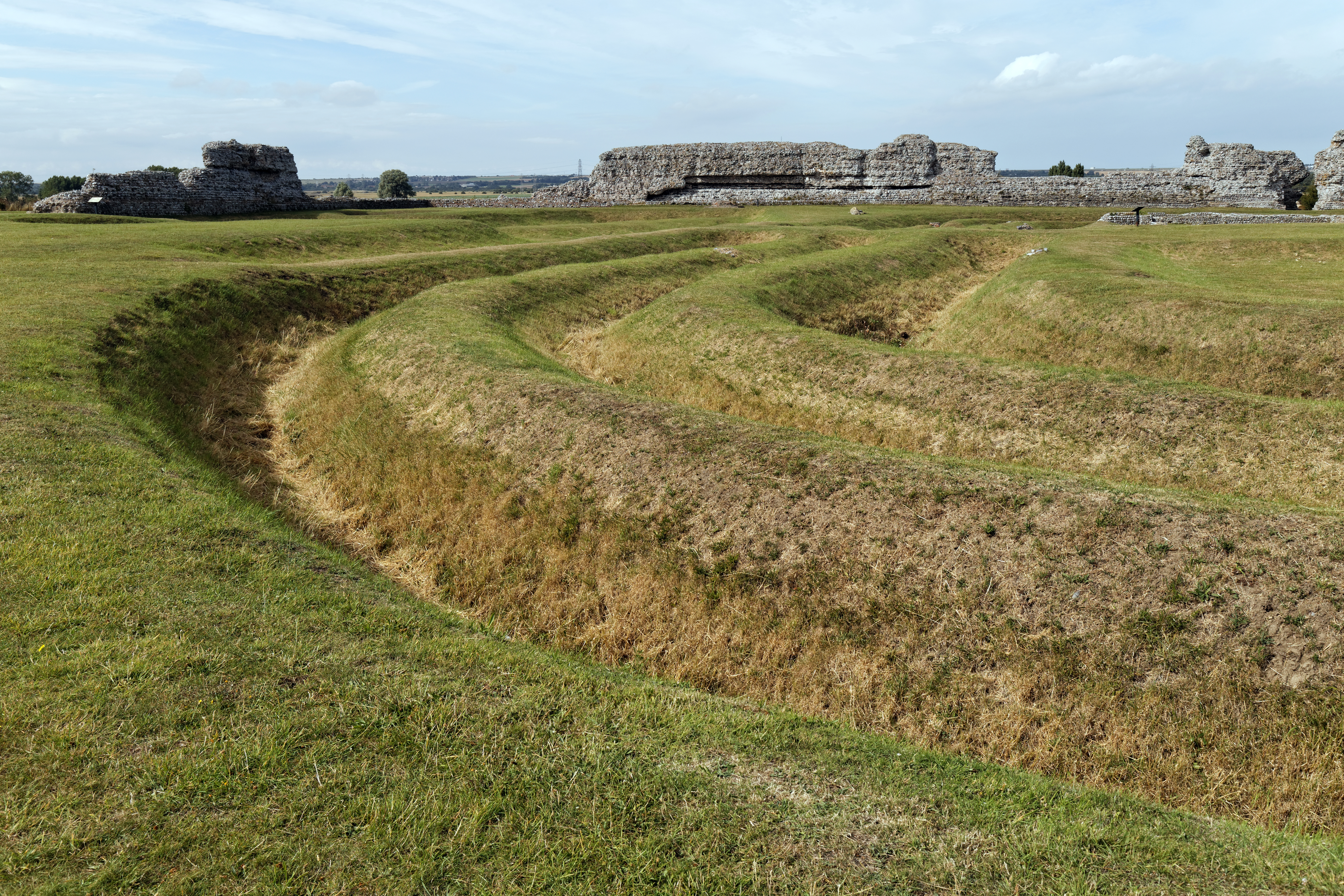 Earthworks at the ruins of Richborough Castle in the civil parish of Richborough, Kent, England. Software: RAW file lens-corrected, optimized and converted to JPEG with DxO OpticsPro 10 Elite, and likely further optimized and/or cropped and/or spun with Adobe Photoshop CS2.